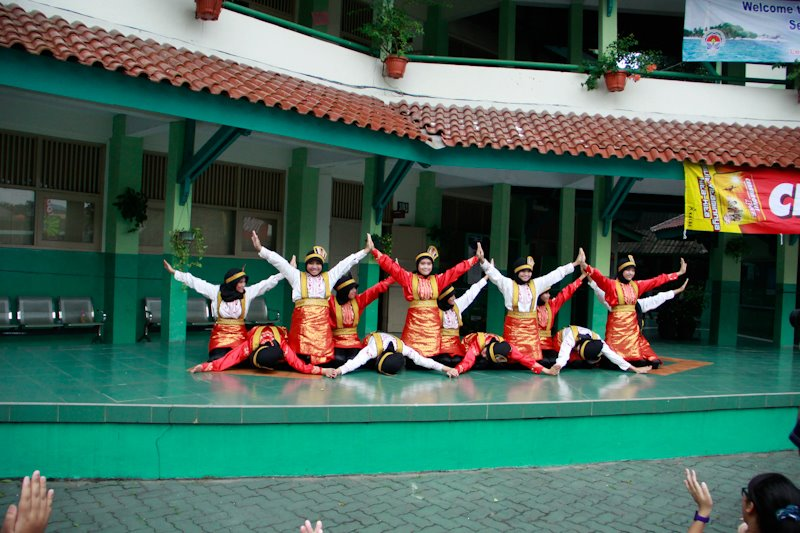 Cleotatra di acara LAPERIS VI.